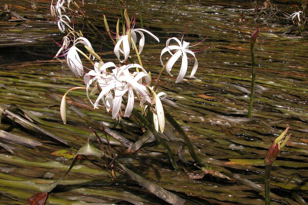 Crinum thaianum in Thailand (3 Dec. 2003). Credit: R. Pooma.